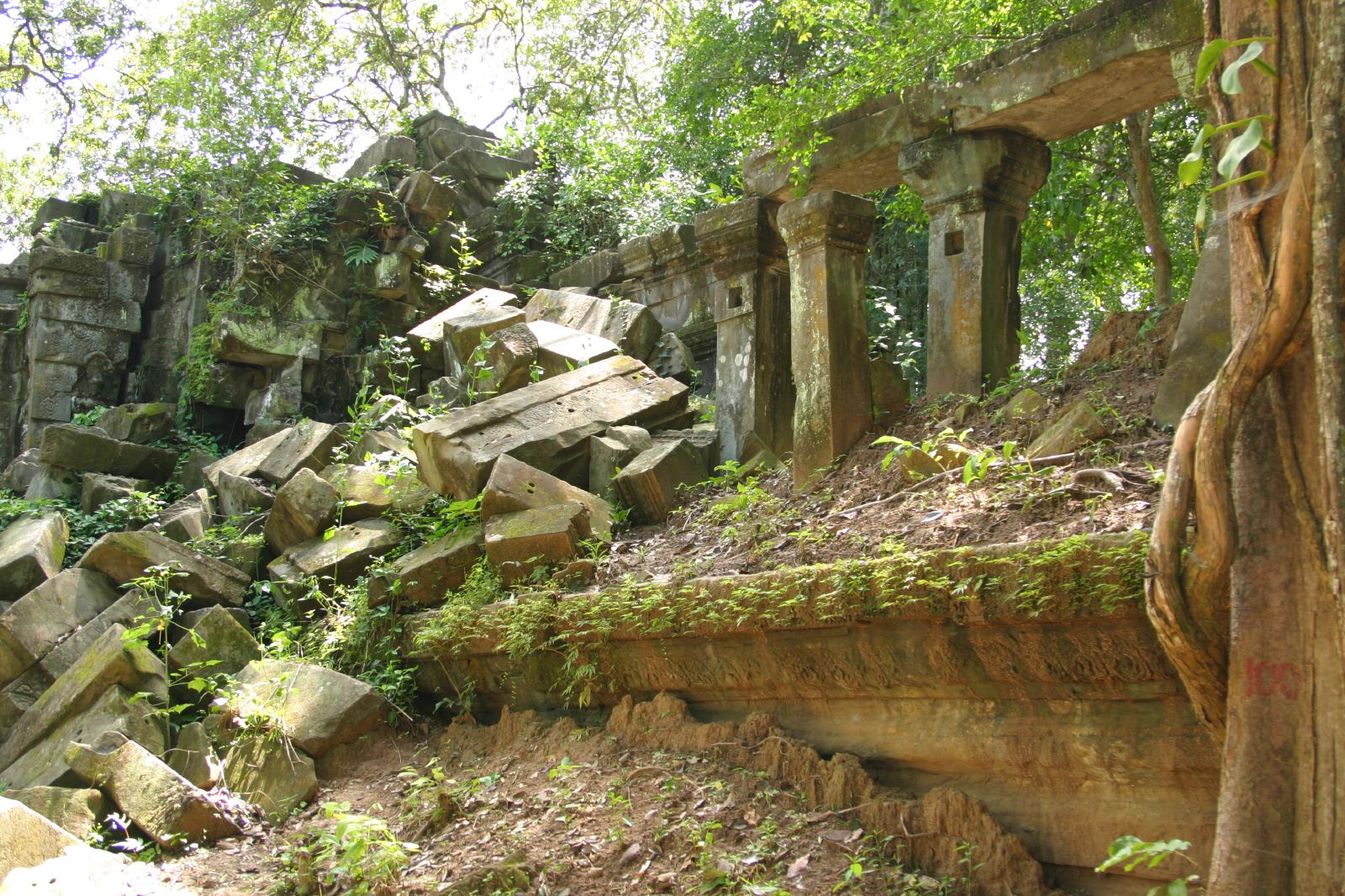 The Beng Mealea in Cambodia.